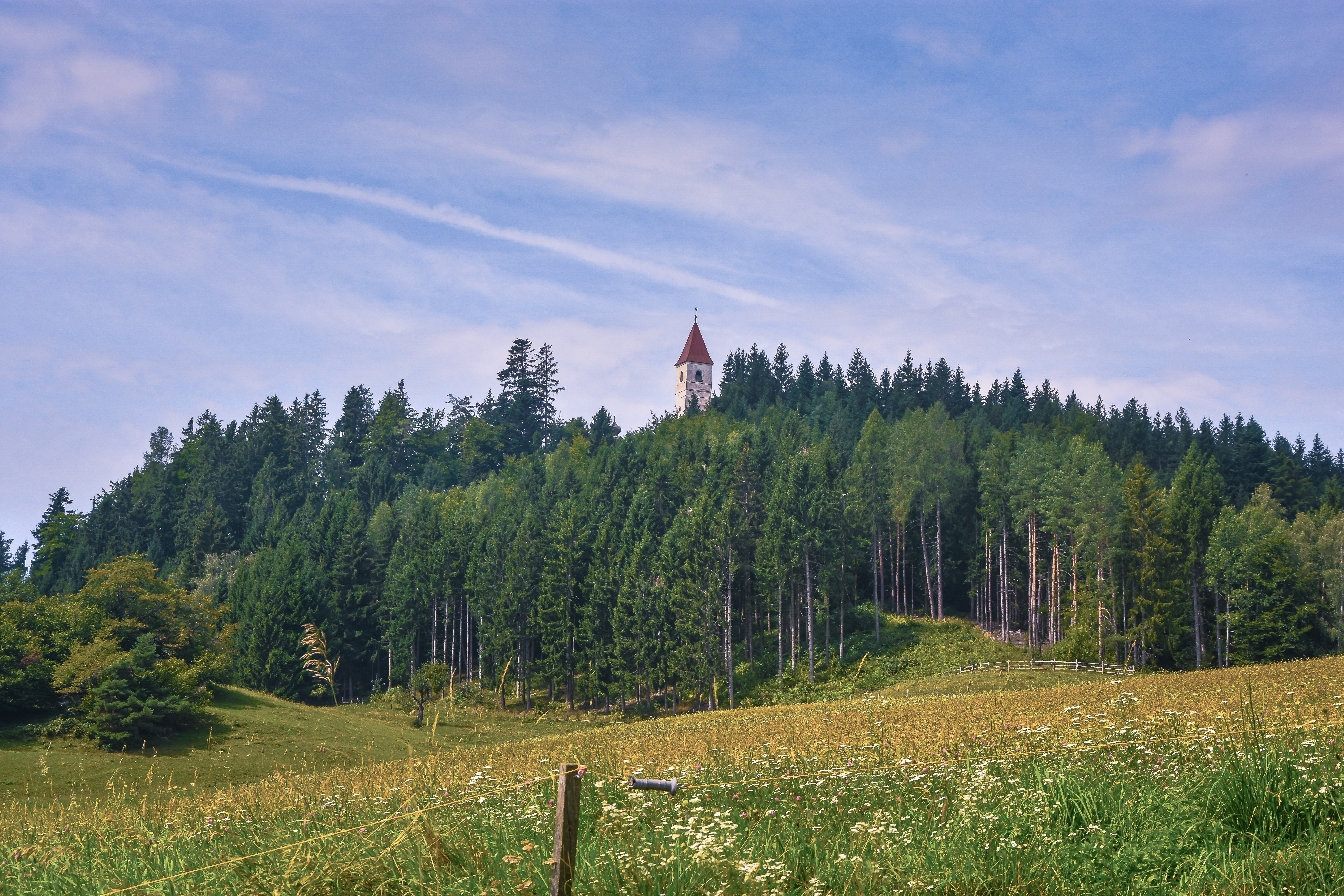 Christofberg seen from Gut Kulnighof